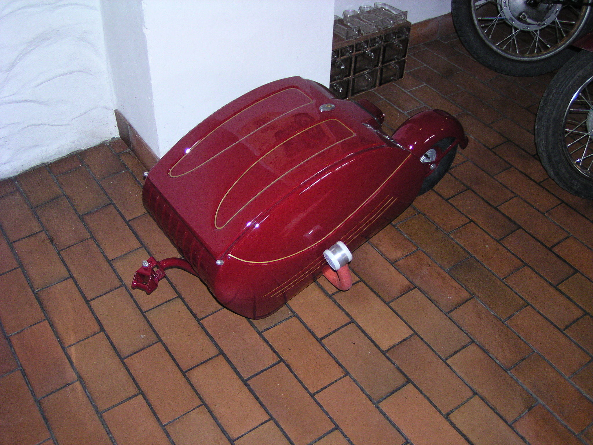 PAv at Motorcycle Museum in Lesná near Znojmo (Muzeum motocyklů Lesná u Znojma)